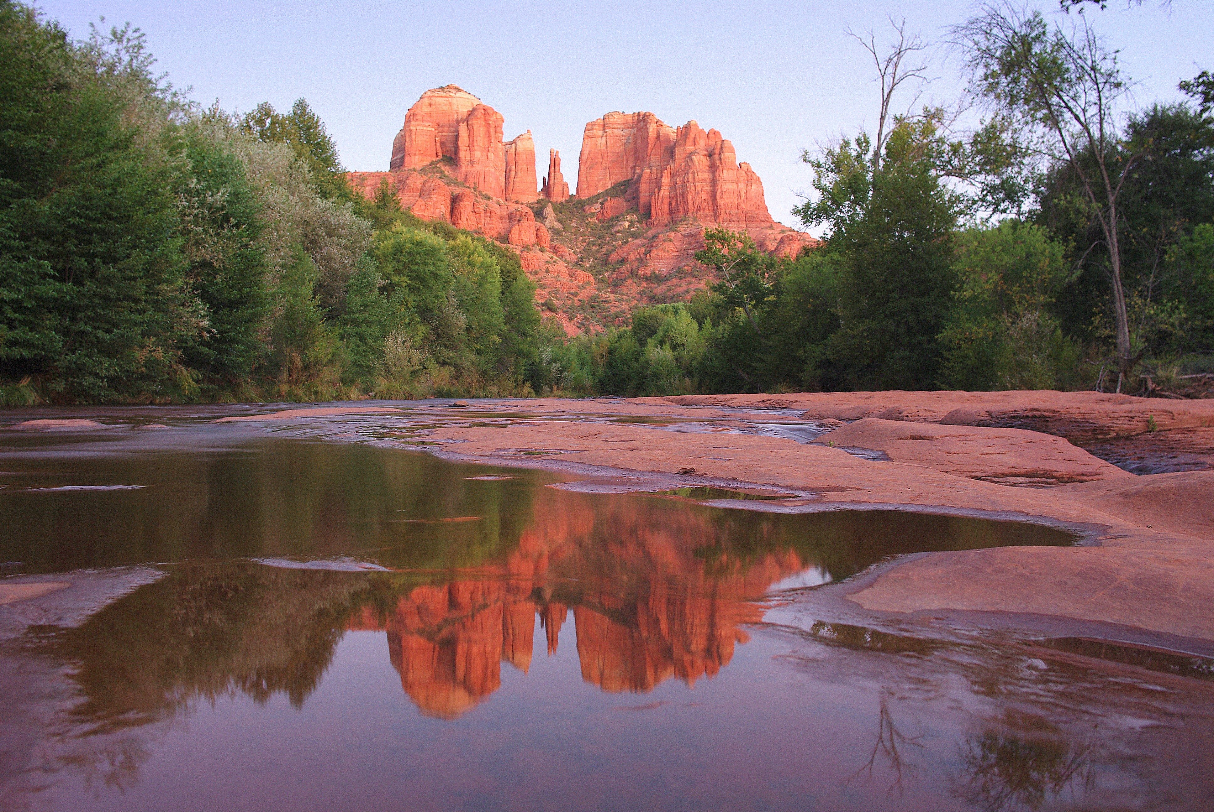 Cathedral Rock at Red Rock Crossing. Taken well after sunset with a 10 sec exposure at f6.7 and ISO 100. The gorillapod definitely came in handy.